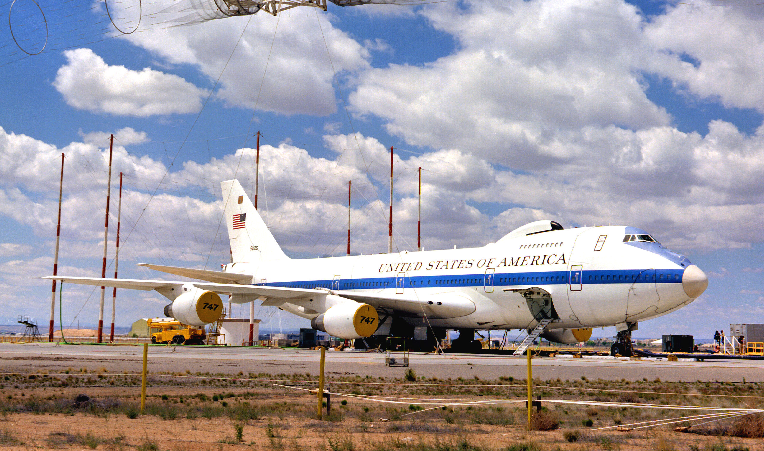 A right front view of an E-4 advanced airborne command post (AABNCP) on the electromagnetic pulse (EMP) simulator for the testing. Location: KIRTLAND AIR FORCE BASE, NEW MEXICO (NM) UNITED STATES OF AMERICA (USA). Call Sign : USAF-50125